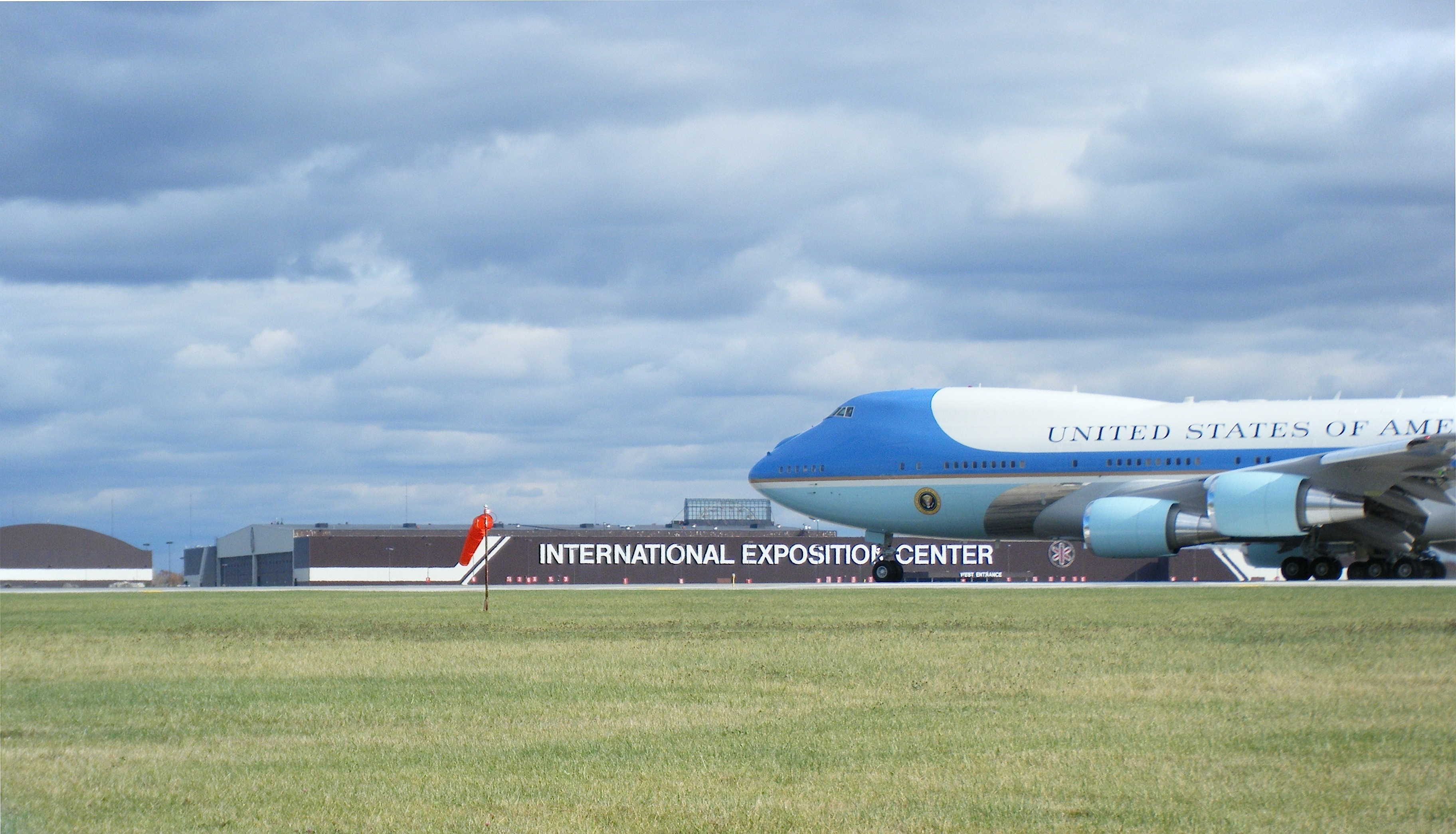 Air Force One take-off in front of The I-X Center